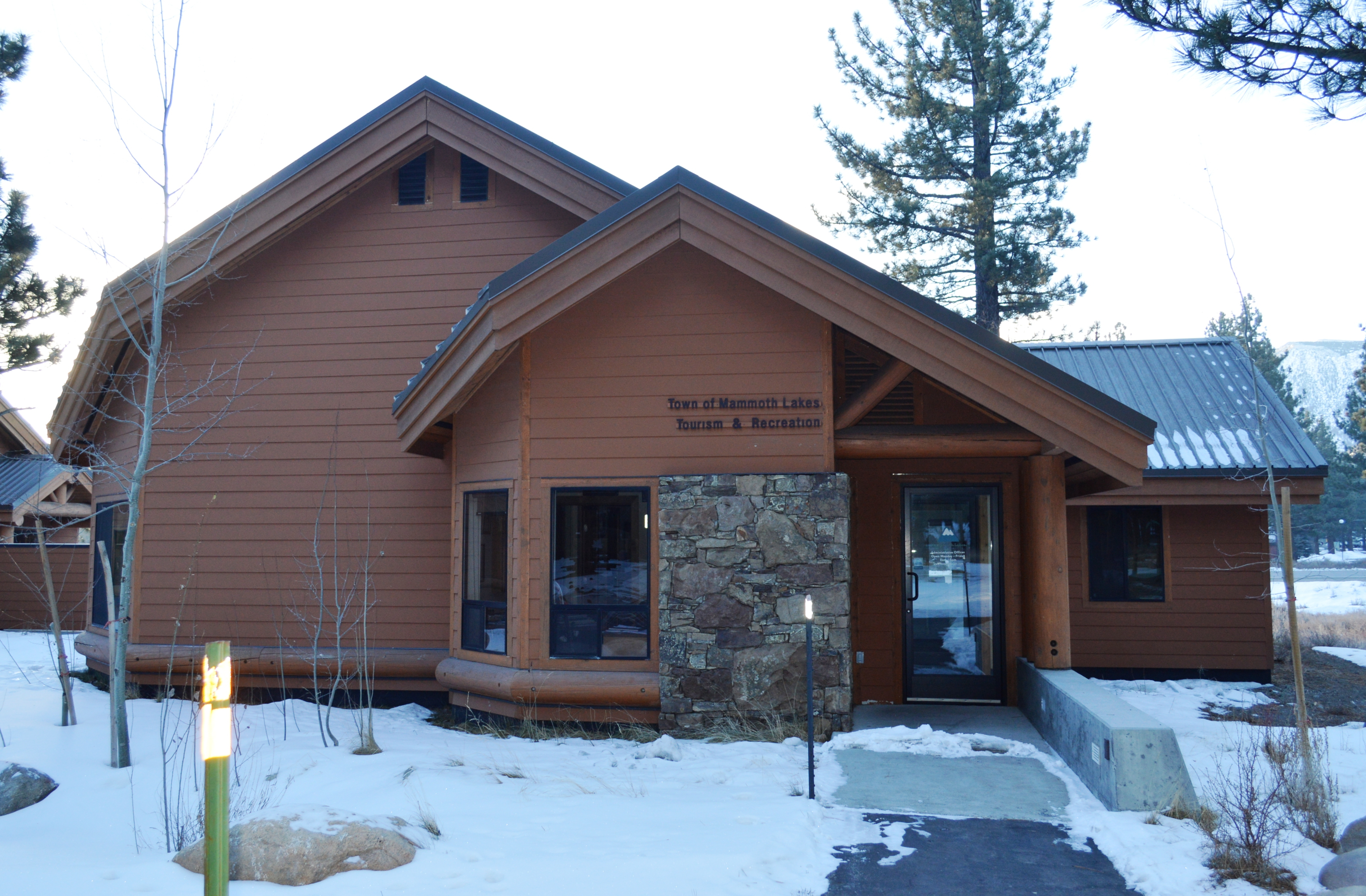 Tourism and Recreation Administrative Offices of the town of Mammoth Lakes, California, U.S.A.